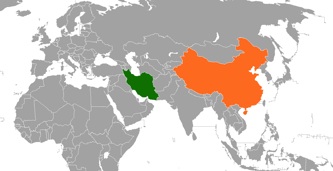 created by me, for use in Iran-China relations, article. Aris Katsaris 12:54, 21 January 2006 (UTC)